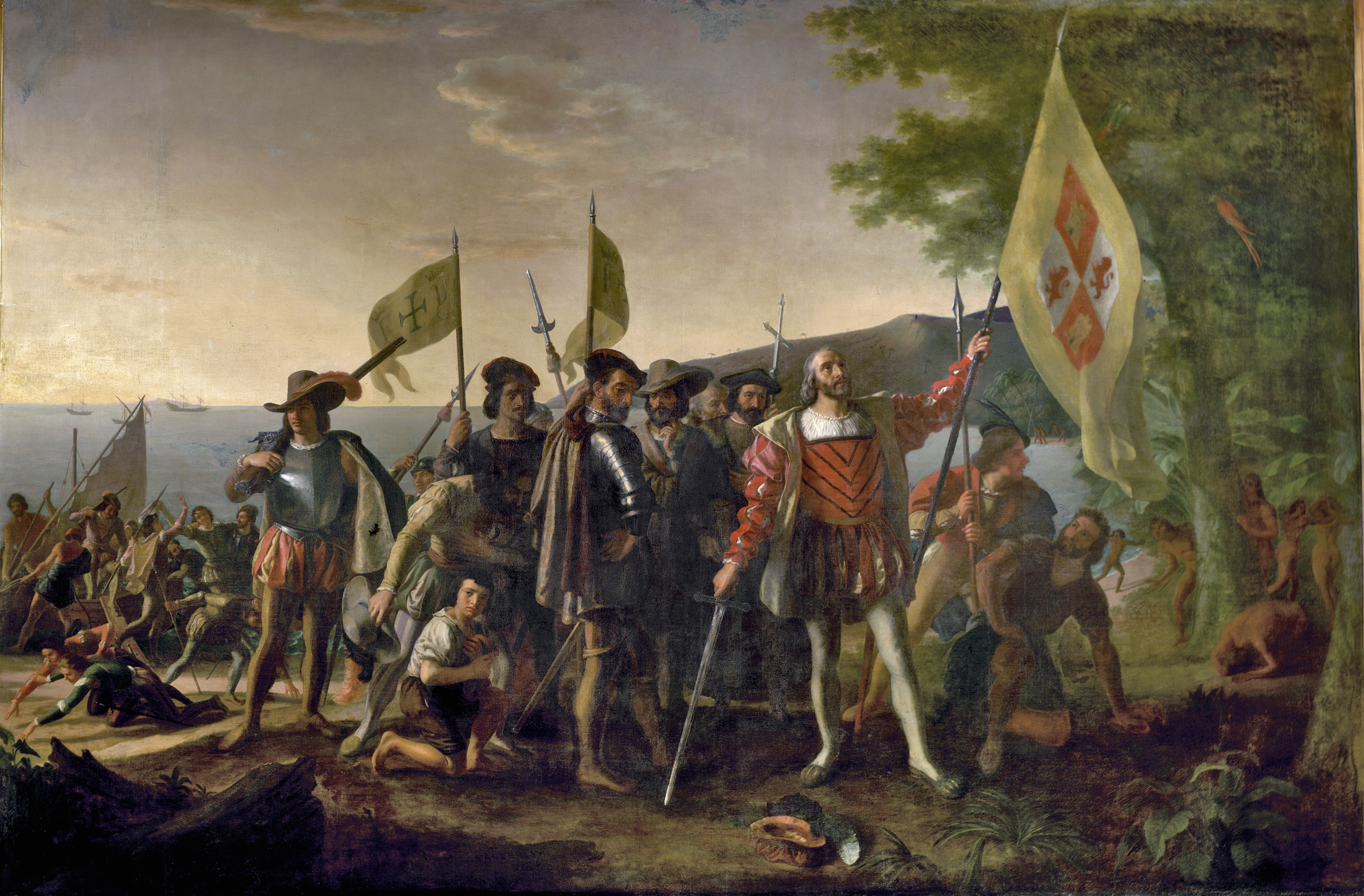 Christopher Columbus is depicted landing in the West Indies, on an island that the natives called Guanahani and he named San Salvador, on October 12, 1492. He raises the royal banner, claiming the land for his Spanish patrons, and stands bareheaded, with his hat at his feet, in honor of the sacredness of the event. The captains of the Niña and Pinta follow, carrying the banner of Ferdinand and Isabella. The crew displays a range of emotions, some searching for gold in the sand. Natives watch from behind a tree.John Vanderlyn (1775-1852) had studied with Gilbert Stuart and was the first American painter to be trained in Paris, where he worked on this canvas for ten years with the help of assistants.